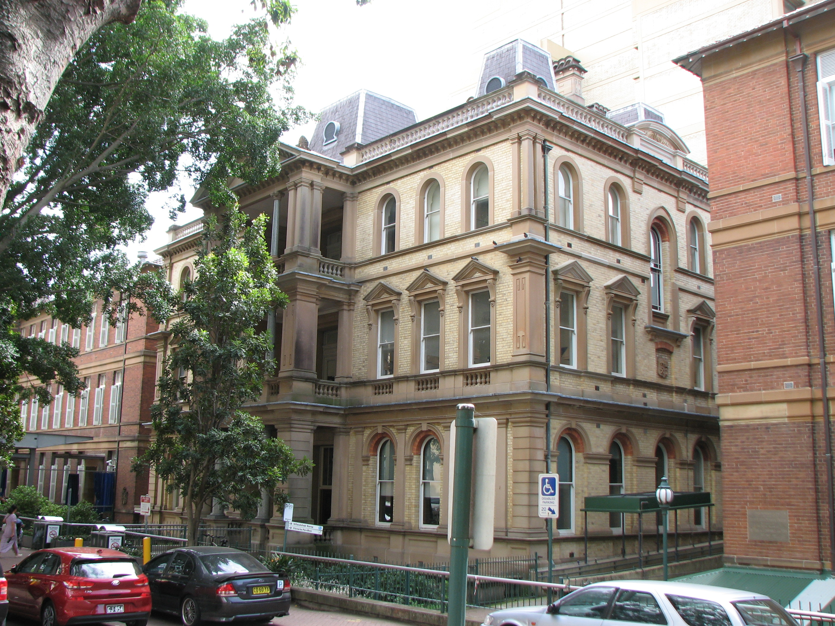 The Albert and Victoria Pavillons flank the Main Administration Building. These buildings are on the NSW Heritage Register